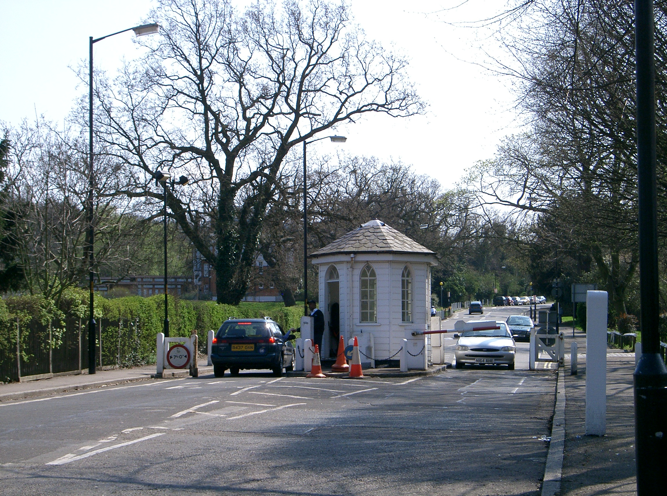 Paying the toll at the College Road, Dulwich, London SE21 tollgate. Photographed by SP Smiler April 2005.